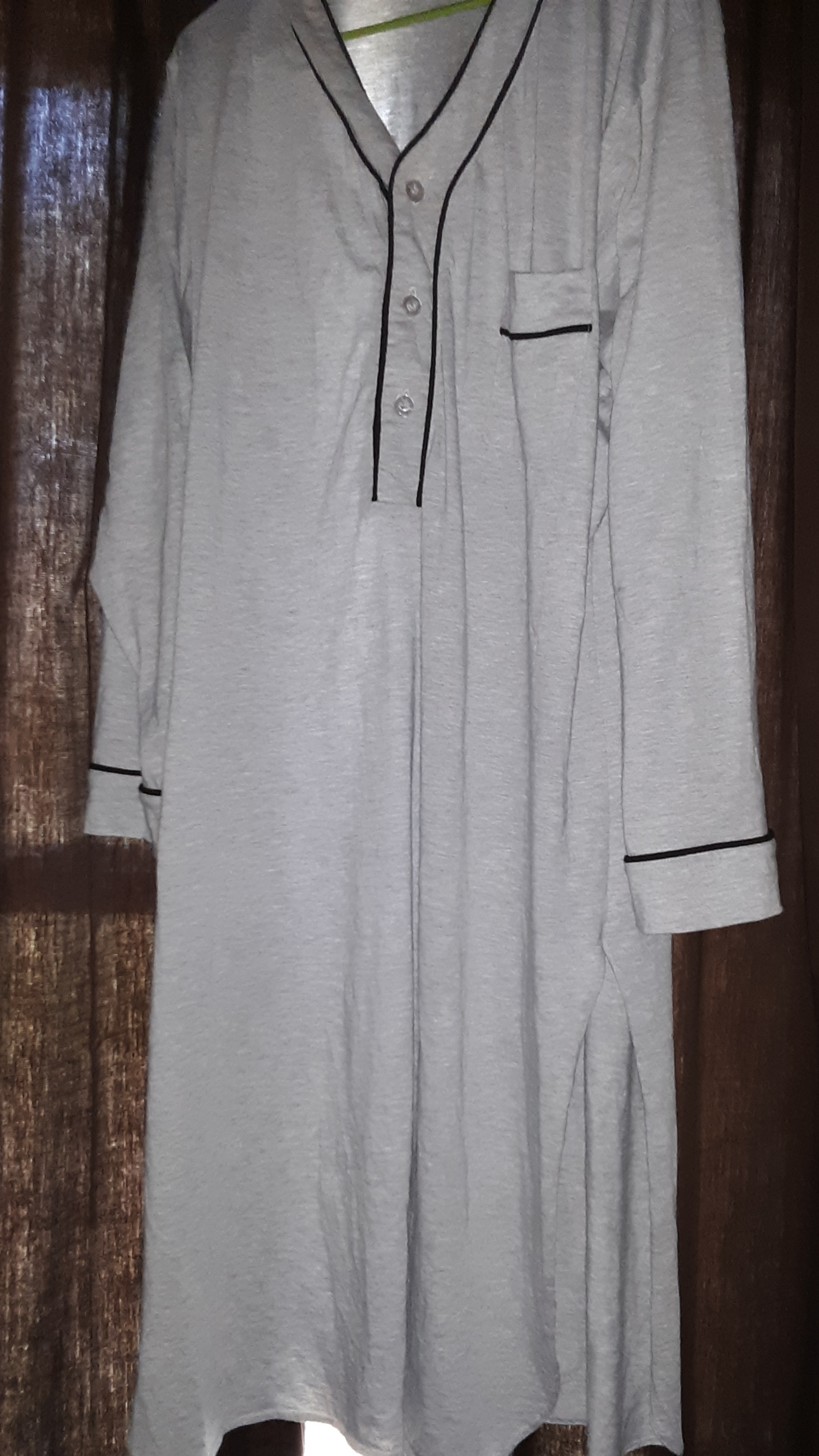 A men's nightshirt